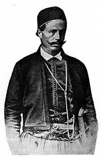 Photo of Youssef Bey Karam